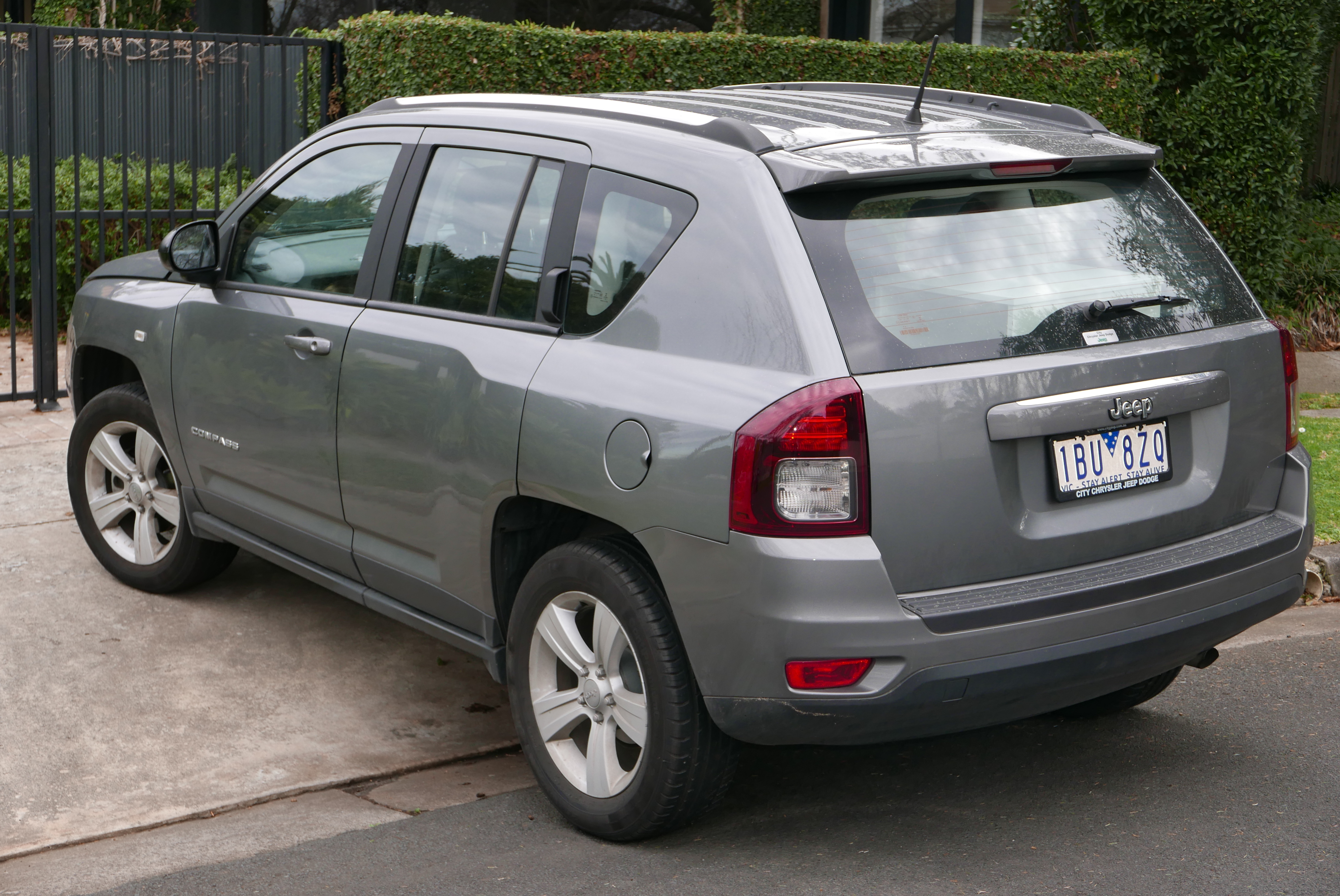 2014 Jeep Compass (MK MY14) Sport wagon. Photographed in Kew, Victoria, Australia. Vehicle registration enquiry results Jurisdiction Victoria Registration 1BU8ZQ Chassis code 1C4NJCFA6ED525679 Engine code ED525679 Compliance date 2014-01 Year of manufacture 2014